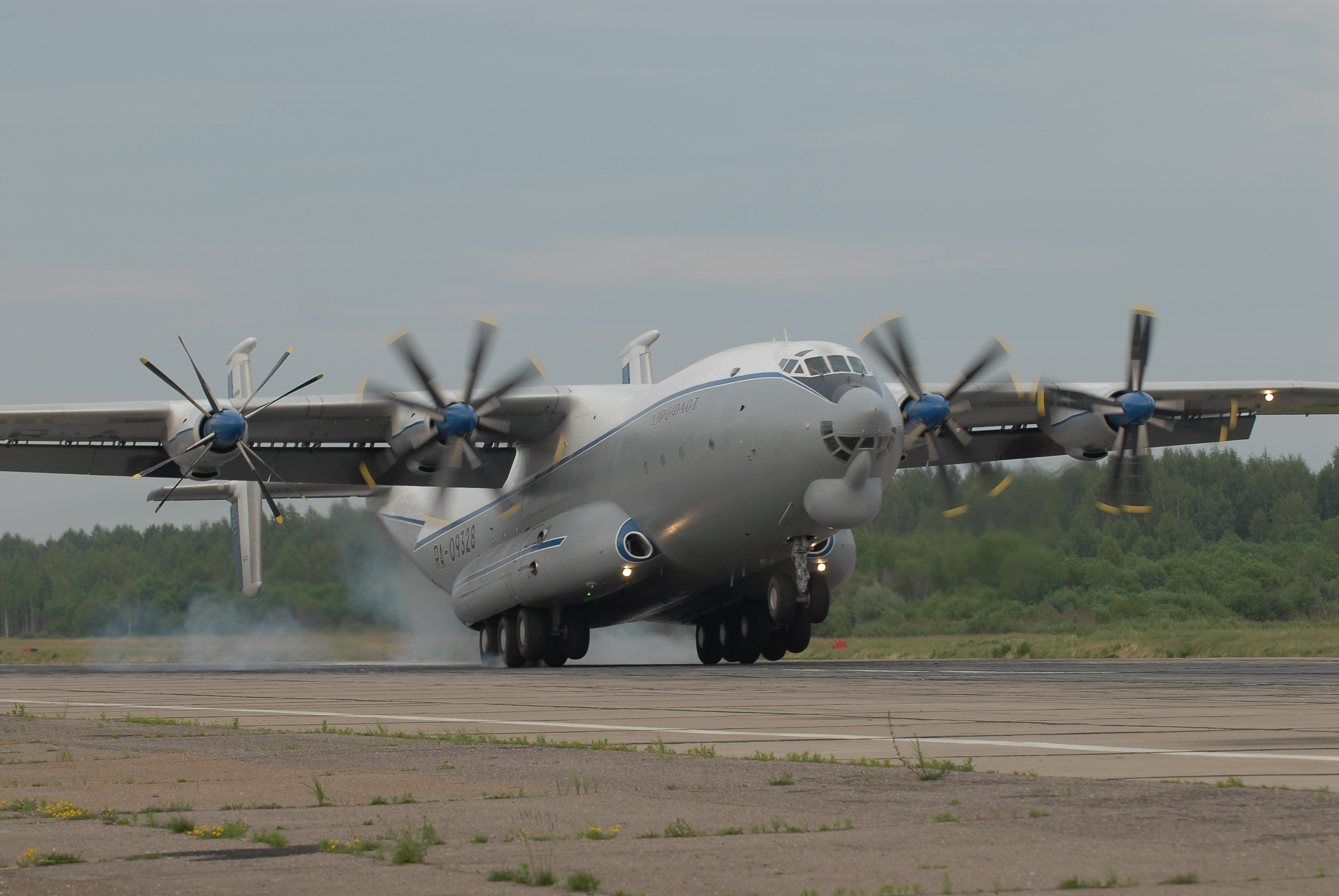 Antonov An-22A Antei aircraft.